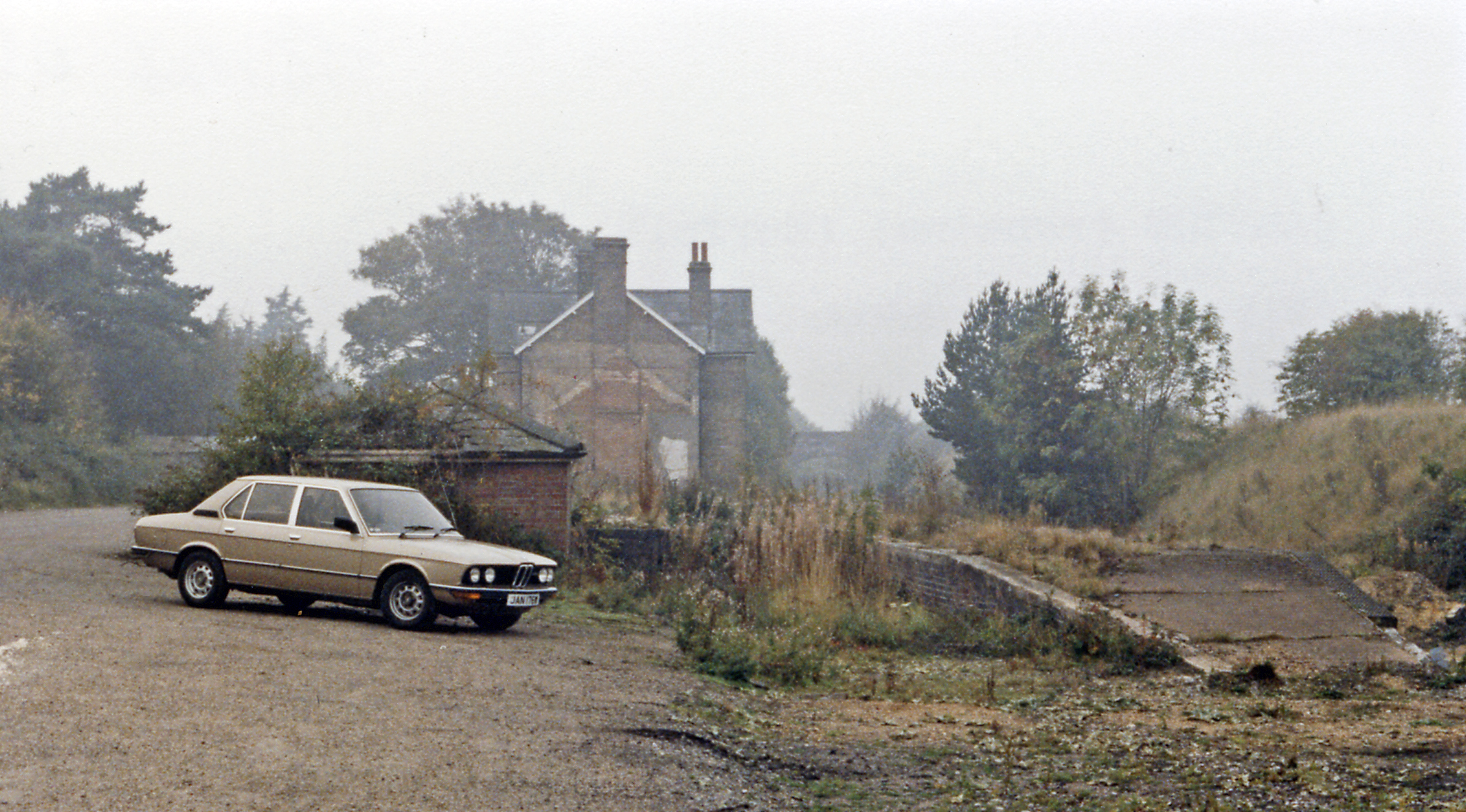 Former Cawston station, 1986. View eastward, towards Aylsham and Wroxham: ex-GER Wroxham - County School line, closed 15/9/52. The station is now a private house: I stole into the yard - but seemed to be the only visitor.